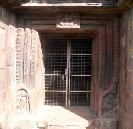 Nagesvara Temple is a disused Hindu temple located in the village of Bhubaneswar. It is situated on the western right bank of the Lingaraja West Canal at a distance of 10.35 metres (34.0 ft) west of Subarnesvara temple, located across the canal